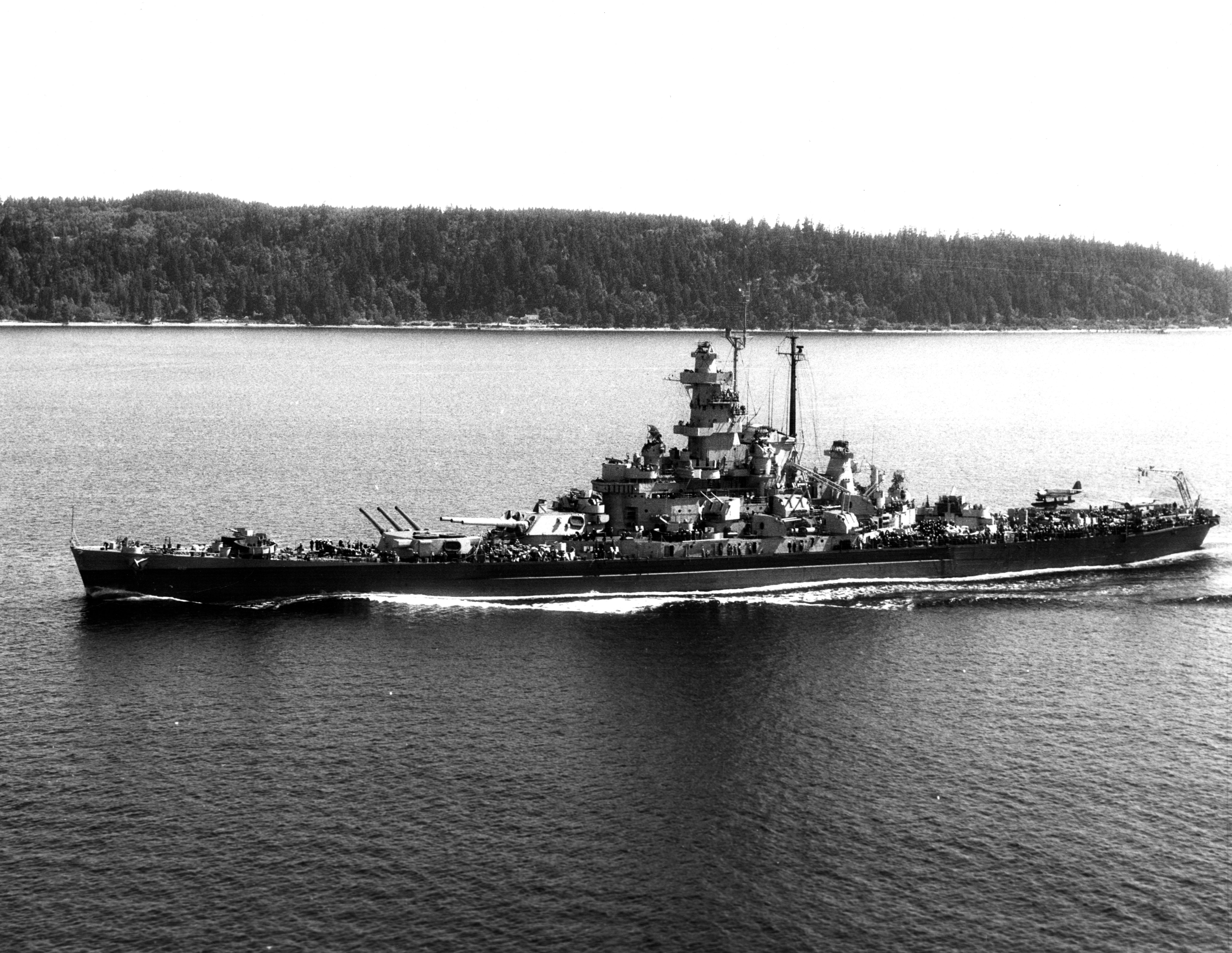 The U.S. Navy battleship USS Massachusetts (BB-59) underway at 15 knots off Point Wilson, Washington (USA), on 11 July 1944.